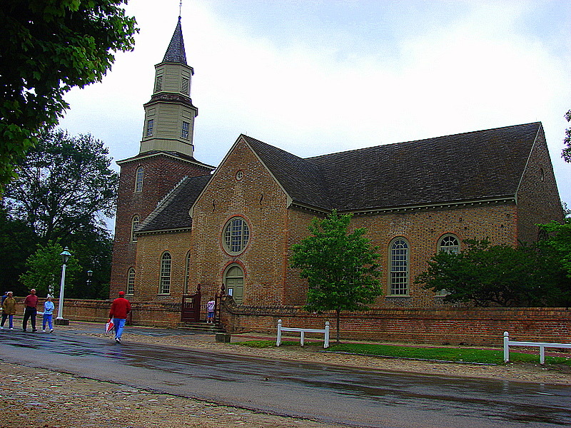 "One of the oldest Episcopal Churches in America serving God and Man continously since 1715" the plaque reads.